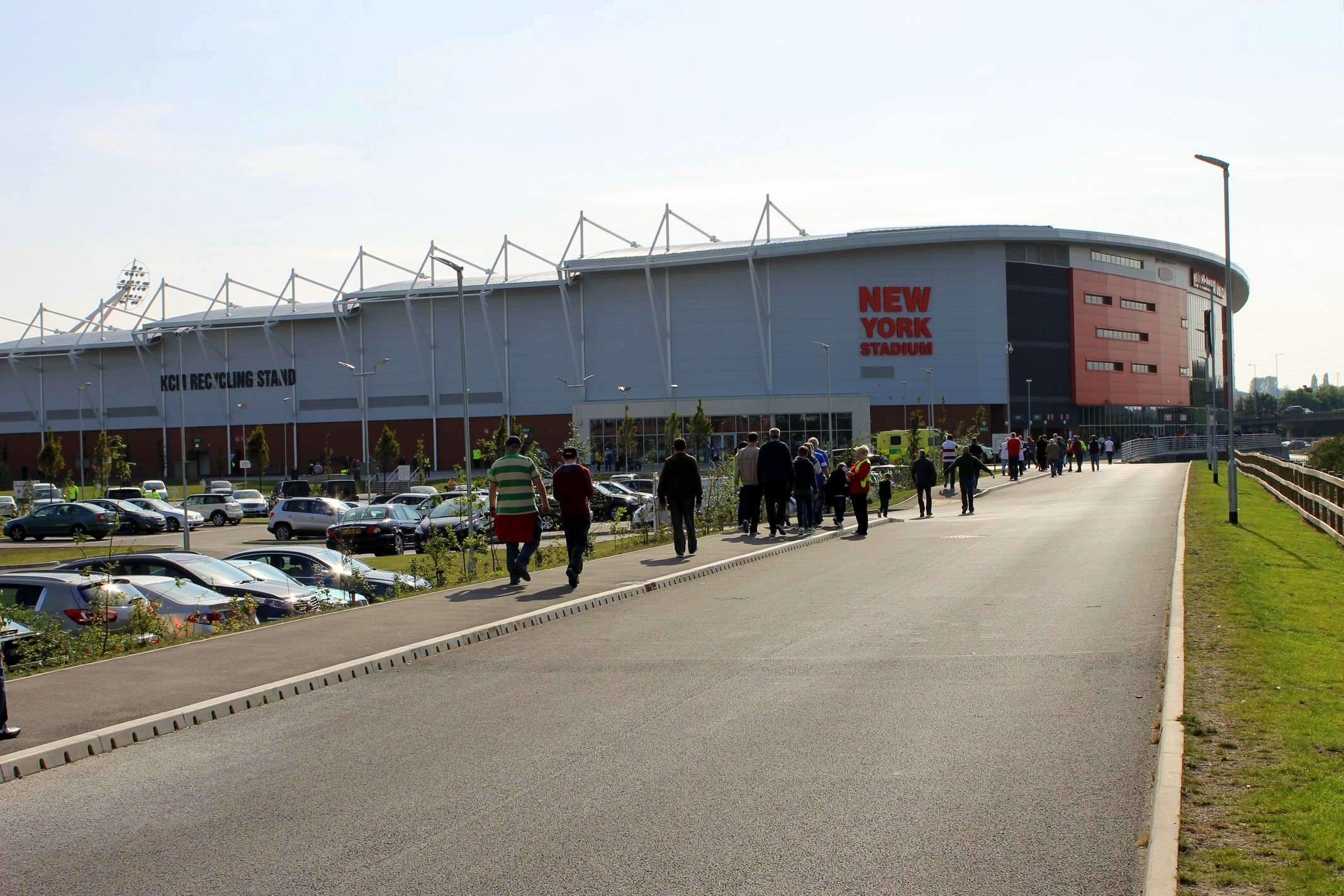 Rotherham Utd V Peterborough Utd Sept 2013 English Football League 1